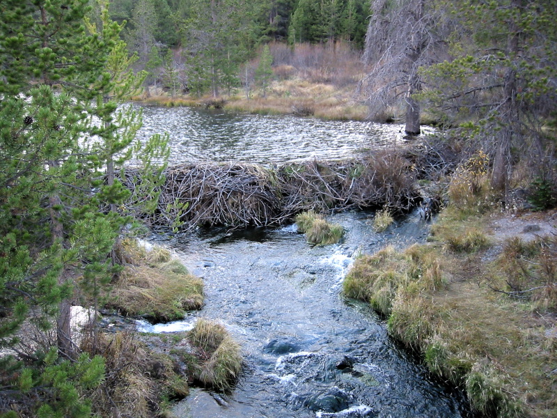 Beaver dam Description: American Beaver (Castor canadensis) dam of Hat Lake and Hat Creek in foreground. Viewpoint location: Bridge over Hat Creek on highway 89, Lassen Volcanic National Park. GPS: UTM 10 629973E 4485438N (WGS84/NAD83) USGS WEST PROSPECT PEAK Quad [1] Viewpoint elevation: 6440' View direction: North Date and time: 2005.10.25 15:44:46 PDT Camera: Canon PowerShot S110 Photographer: Walter Siegmund